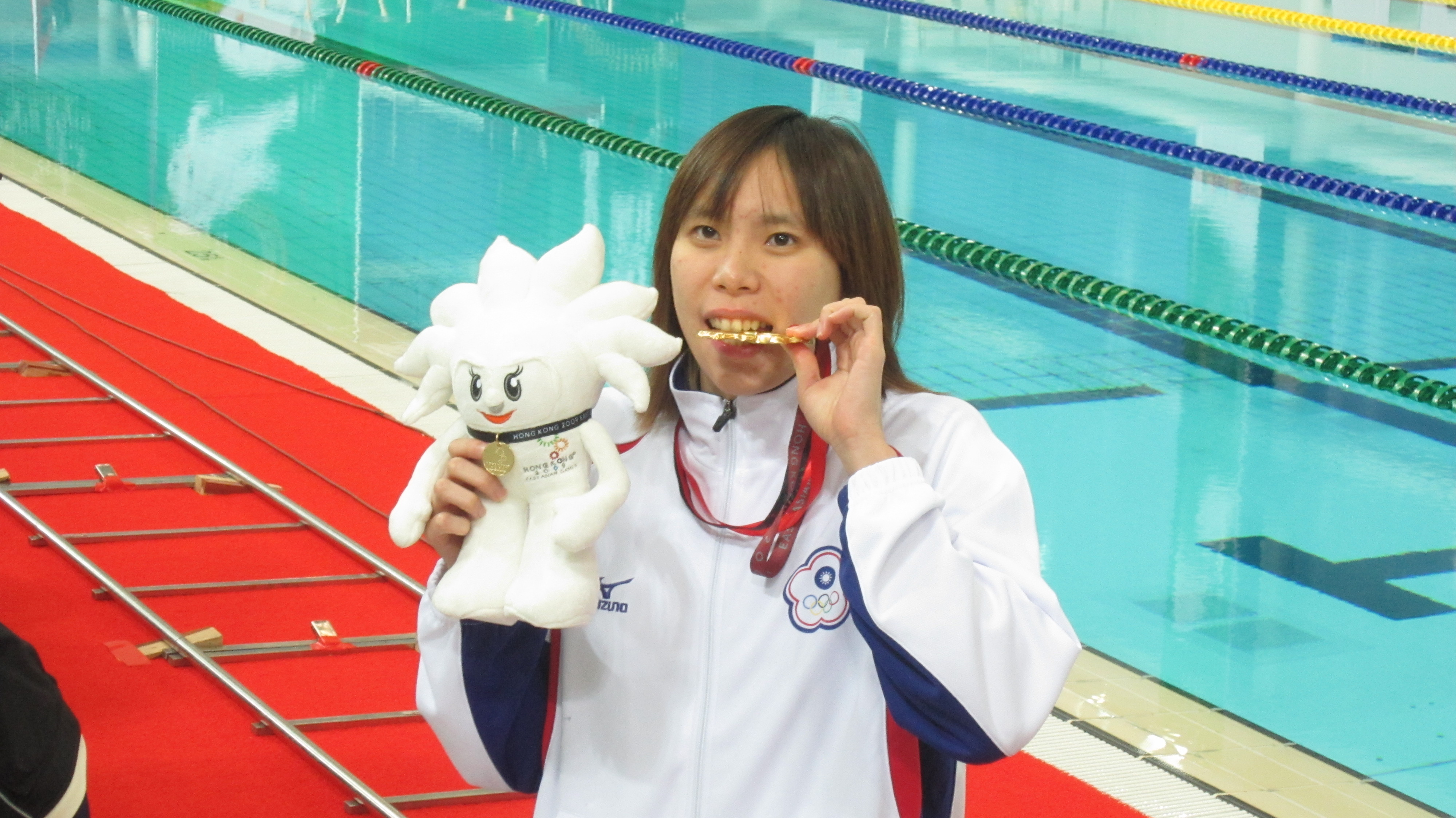 Hong Kong East Asian Games